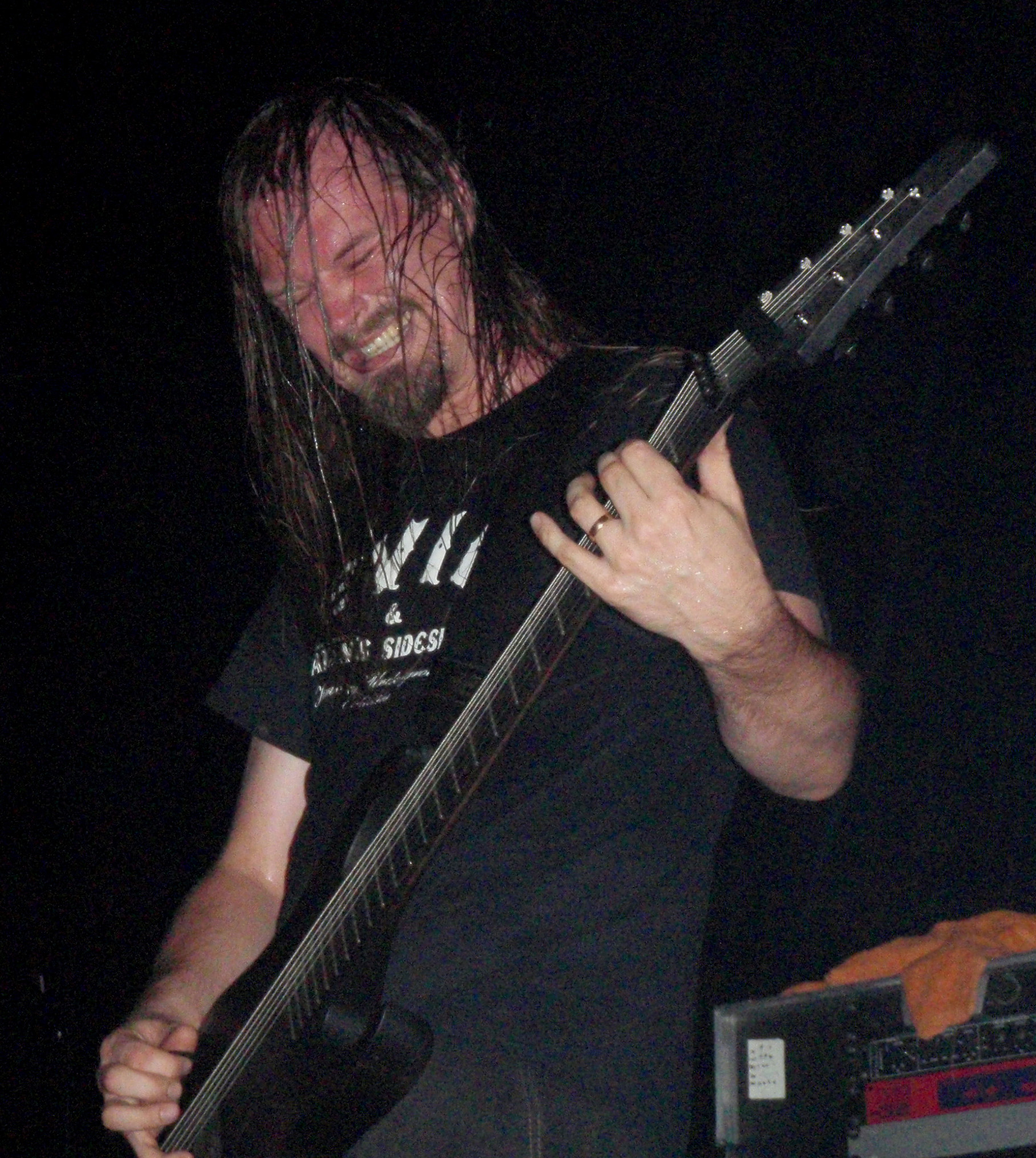 Fredrik Thordendal from Meshuggah performing in Prague, June 25. 2008.